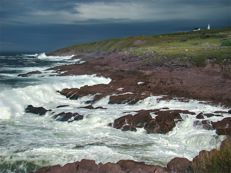 Cape Spear, Avalon Peninsula, Newfoundland, Canada.